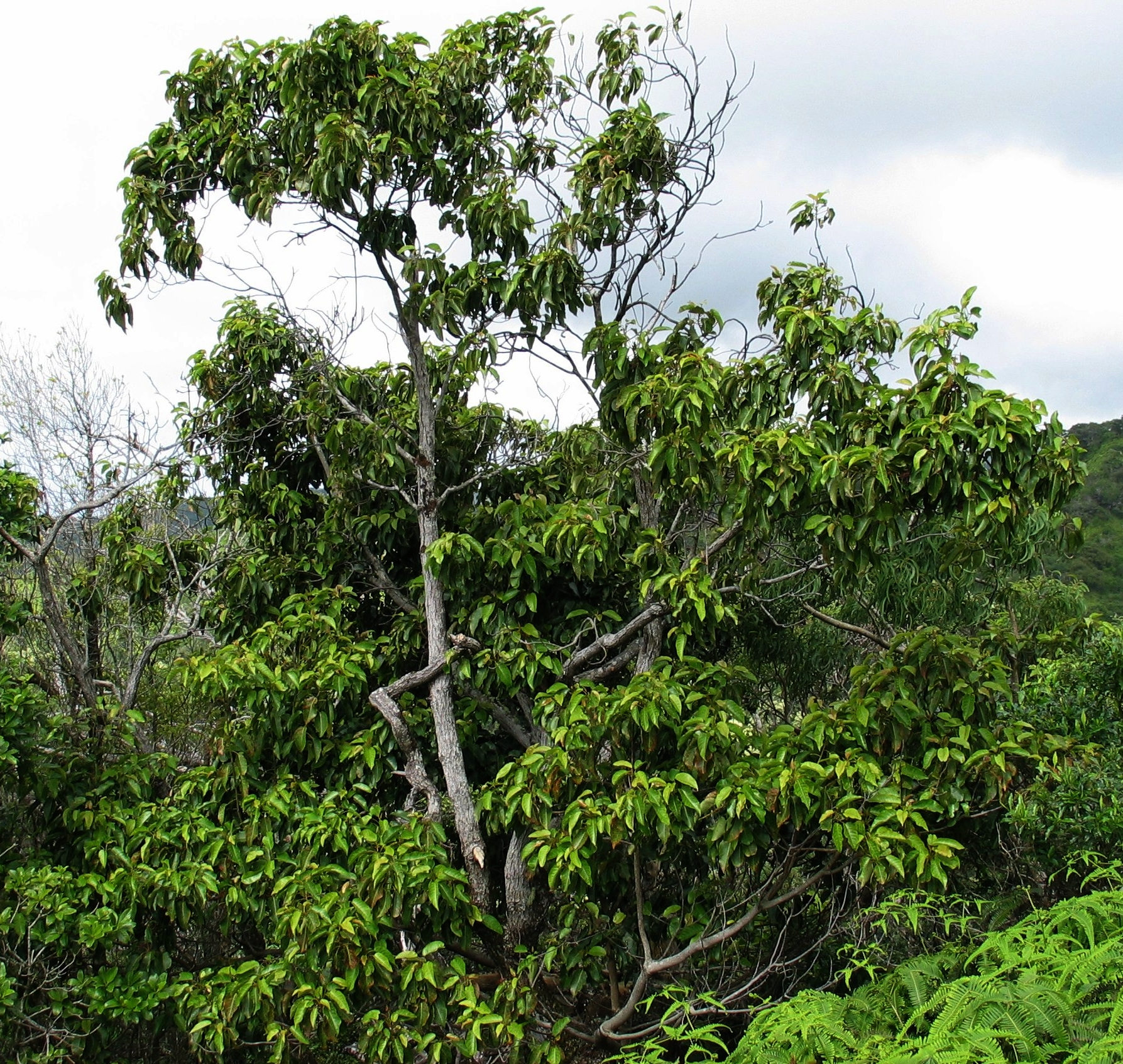 Kalia Elaeocarpaceae Endemic to the Hawaiian Islands Kalauao Trail, Oʻahu